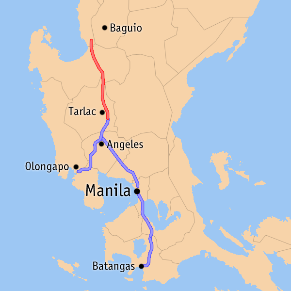 Map of expressways on Luzon in the Philippines, highlighting the Tarlac-Pangasinan-La Union Expressway